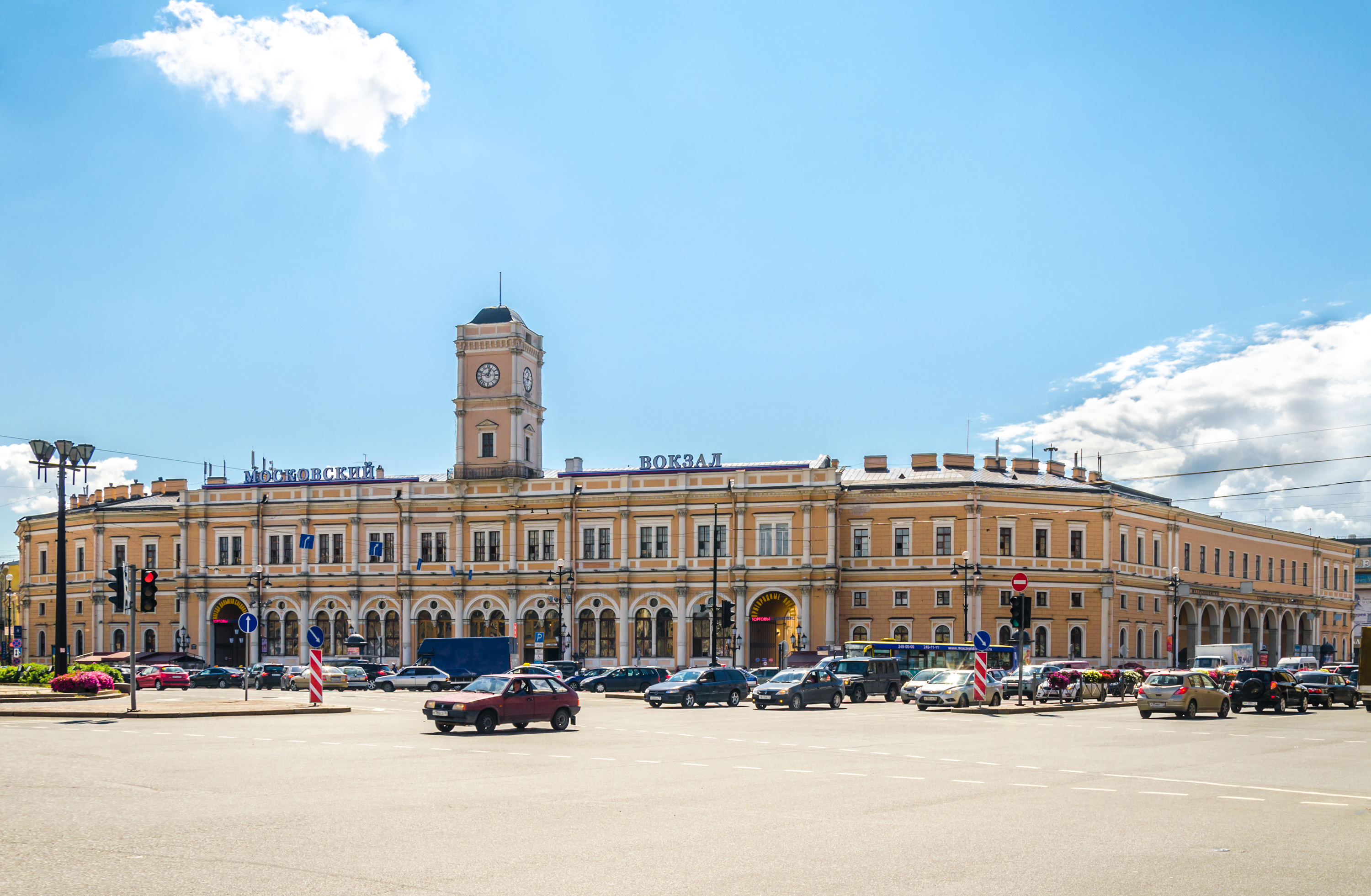 Moskovskiy rail terminal in Saint Petersburg